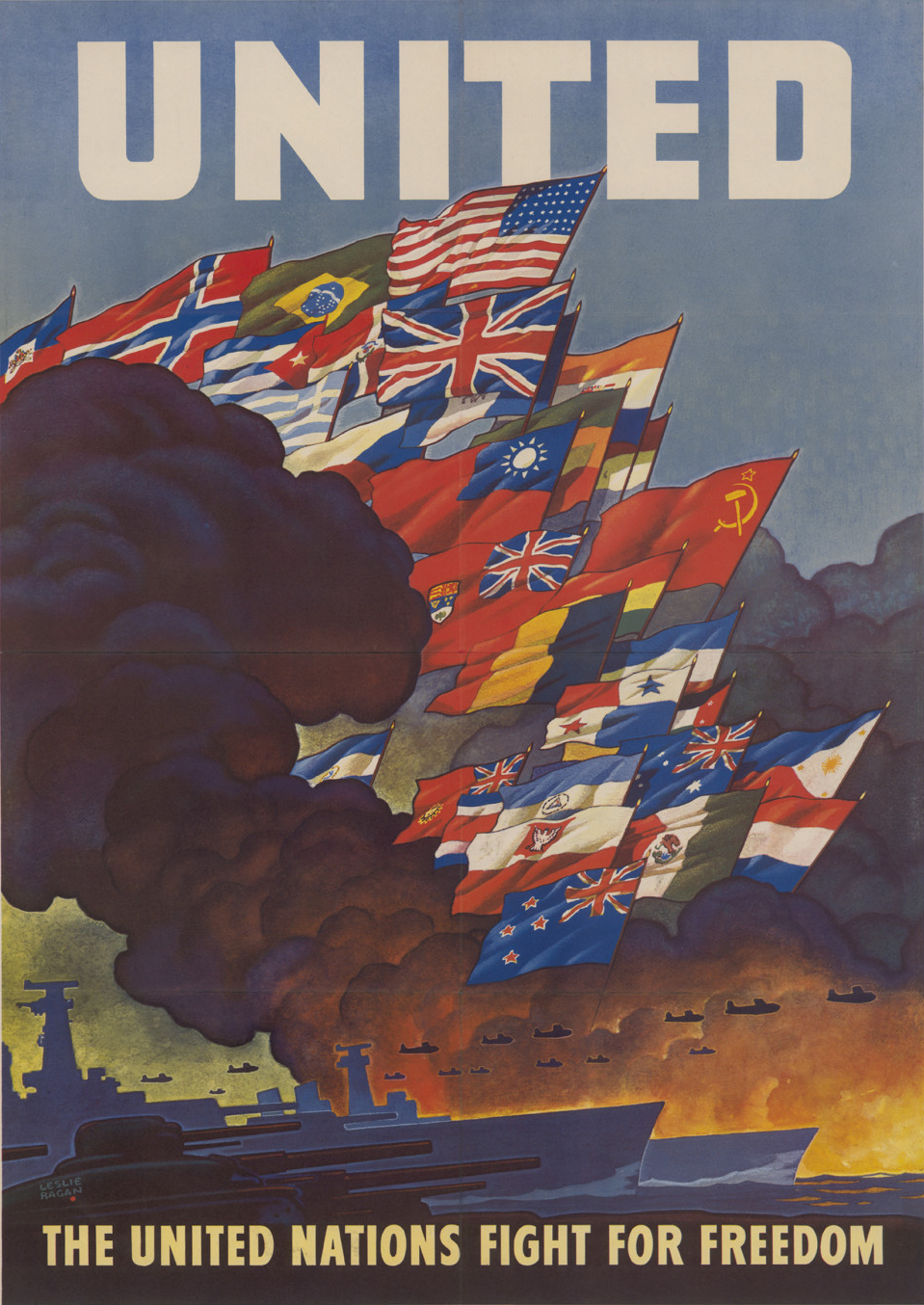 Poster created during the Second World War (1943), according to the Declaration of the United Nations of 1942. The Poster, created by United States Office of War Information and made by United States Government Printing Office[1][2]. The poster features the flags of those countries or governments-in-exile that pledged to support the Allied effort (beginning from the top-left corner, and continuing in rows from left to right: Haiti, Norway, Brazil, the United States, Cuba, the Dominican Republic, the United Kingdom, Greece, Guatemala [behind the British Flag], South Africa, Czechoslovakia, China, Ethiopia, Luxembourg, Canada, the Soviet Union, Belgium, Bolivia, Yugoslavia, Honduras, Panama, Iraq, India, Costa Rica, El Salvador, Australia, the Philippines, Poland, Mexico, The Netherlands and New Zealand) above the on-going war machine that the United Nations represented. The absence of the Free French flag is unusual. This poster is important because it represents the origins of the United Nations as a wartime alliance (before it was a concrete organization). As a work of Office of War Information, a branch of the United States Federal Government, this work is in public domain. Obtained via E-Donkey by Commanderraf.